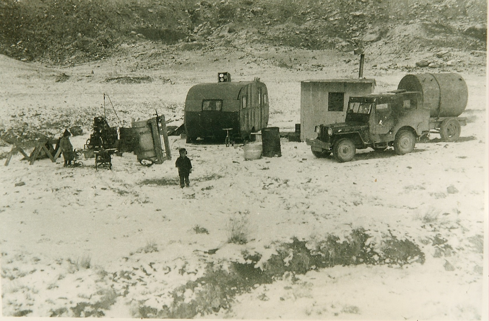 Yellow Cat, Utah, the Steens camp in 1950